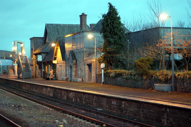 Portarlington Station, near to Cuil an tSudaire and Derryvilla, Laois, Ireland. Passengers waiting for a train at Portarlington station. Portarlington Station was opened on the 26-06-1847.